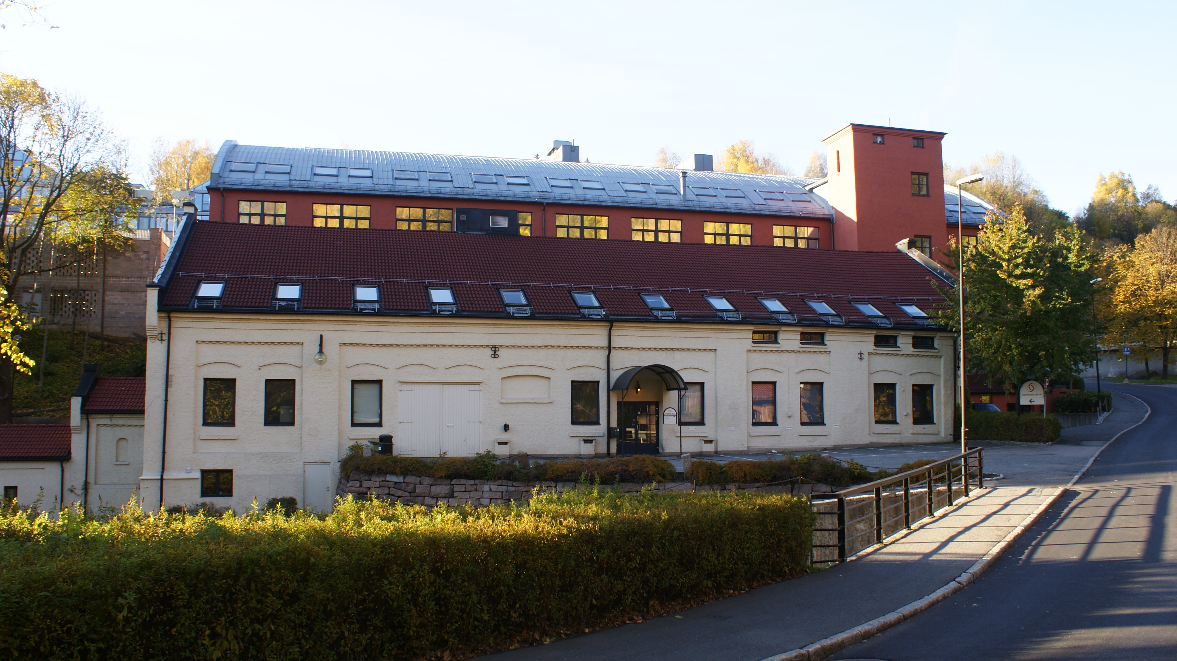 Part of Nydalen industrial park, Gjerdrums vei, Nordre Aker, Oslo. The buildings belonged to Nydalens Compagnie. The building in front was called Blegeriet (the bleachery) and is from 1878. Made into offices etc. in 1986 by Arkitektene A/S. The red building behind is Nye farveri from 1926. Made into offices etc. in 1985-1988 by Arkitektene A/S.